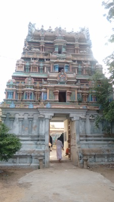 Kottaramiravatesvarartemple கொட்டாரம் ஐராவதேஸ்வரர்கோயில்